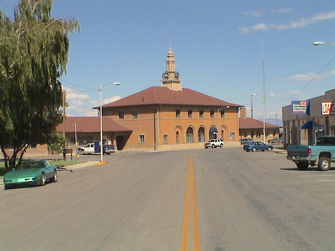 Train station in Helena, Montana, U.S., Believed to have once been called the Northern Pacific Railway Depot, and (possibly) Union Depot. Now (2016) called Montana Rail Link. Viewed looking northeast on Helena Avenue.